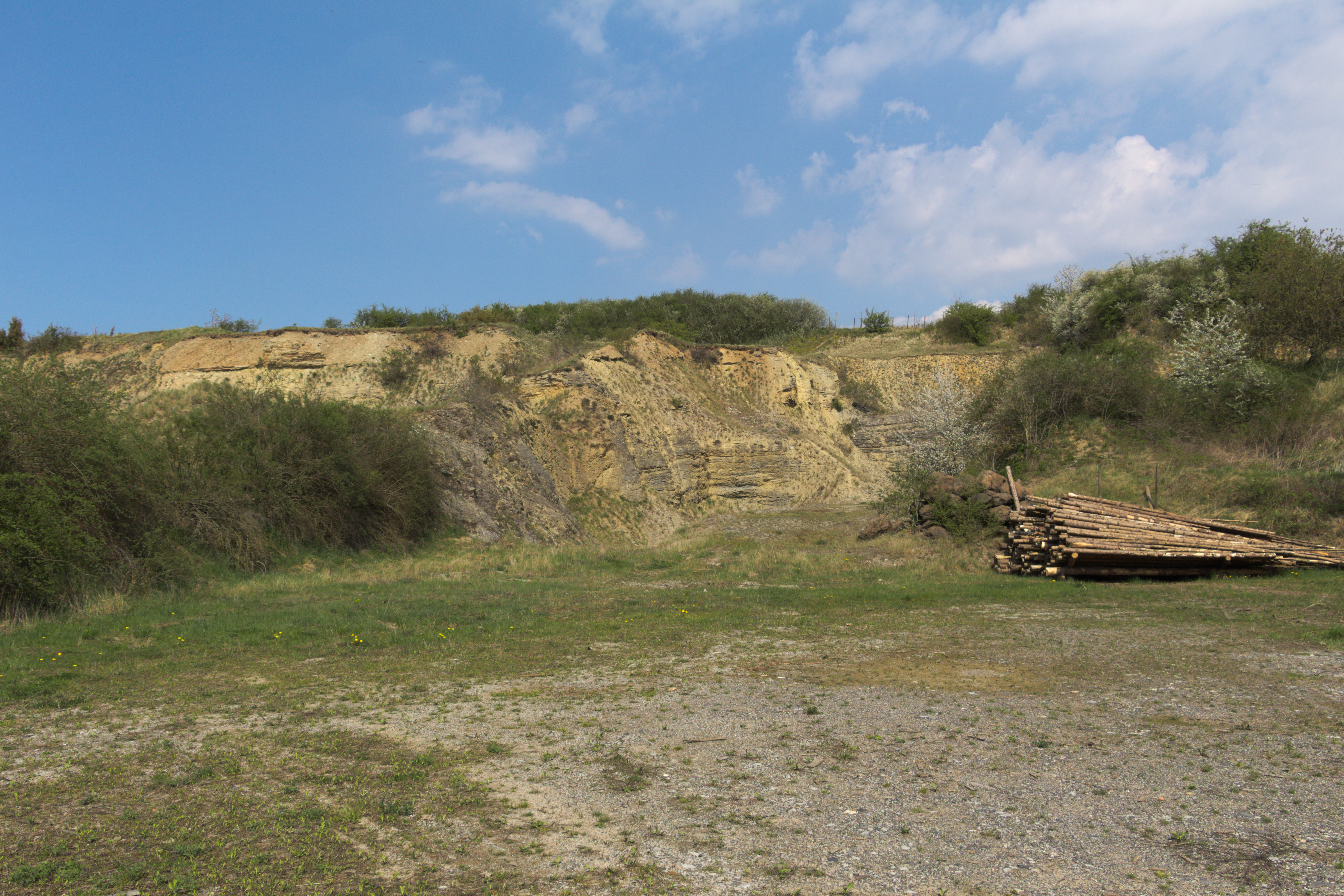 "Magerrasen" (Calcareous grassland) Limestone Outcrop near Maar, Lauterbach, Hesse, Germany